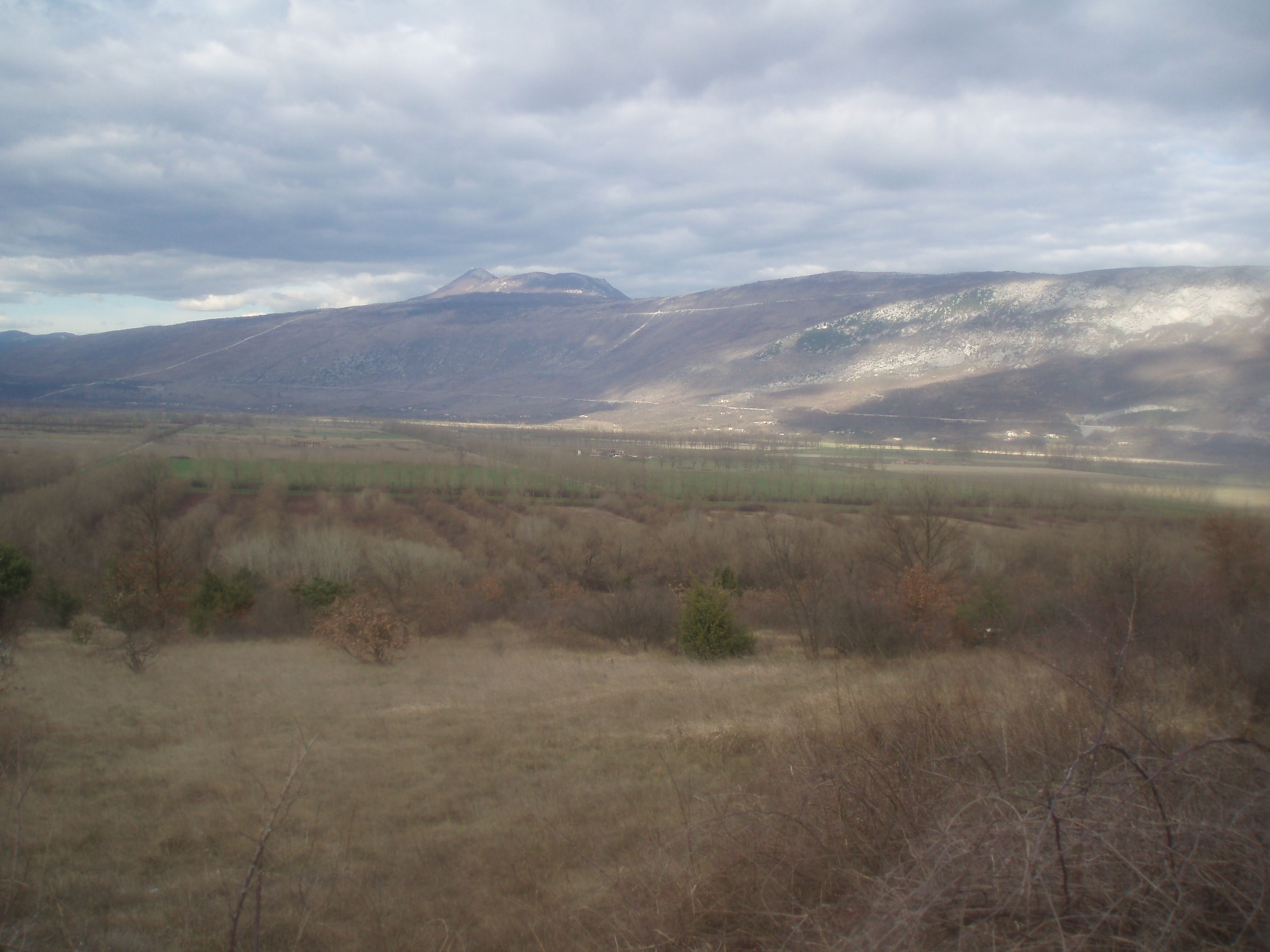 "Ćepićko Polje", near Jesenovik on Peninsula Istria.